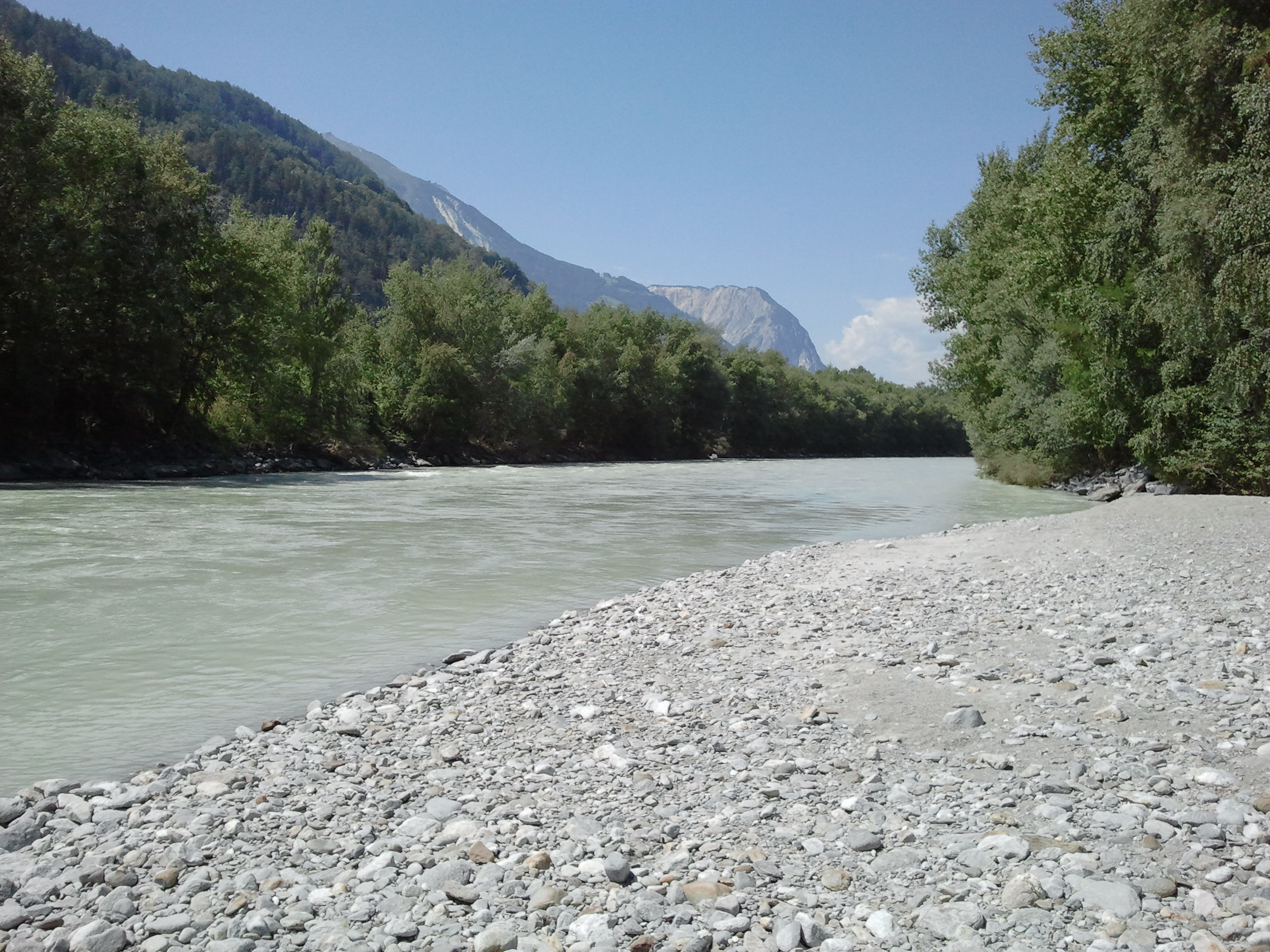 The Rhone at Gampel-Steg in the canton of Valais